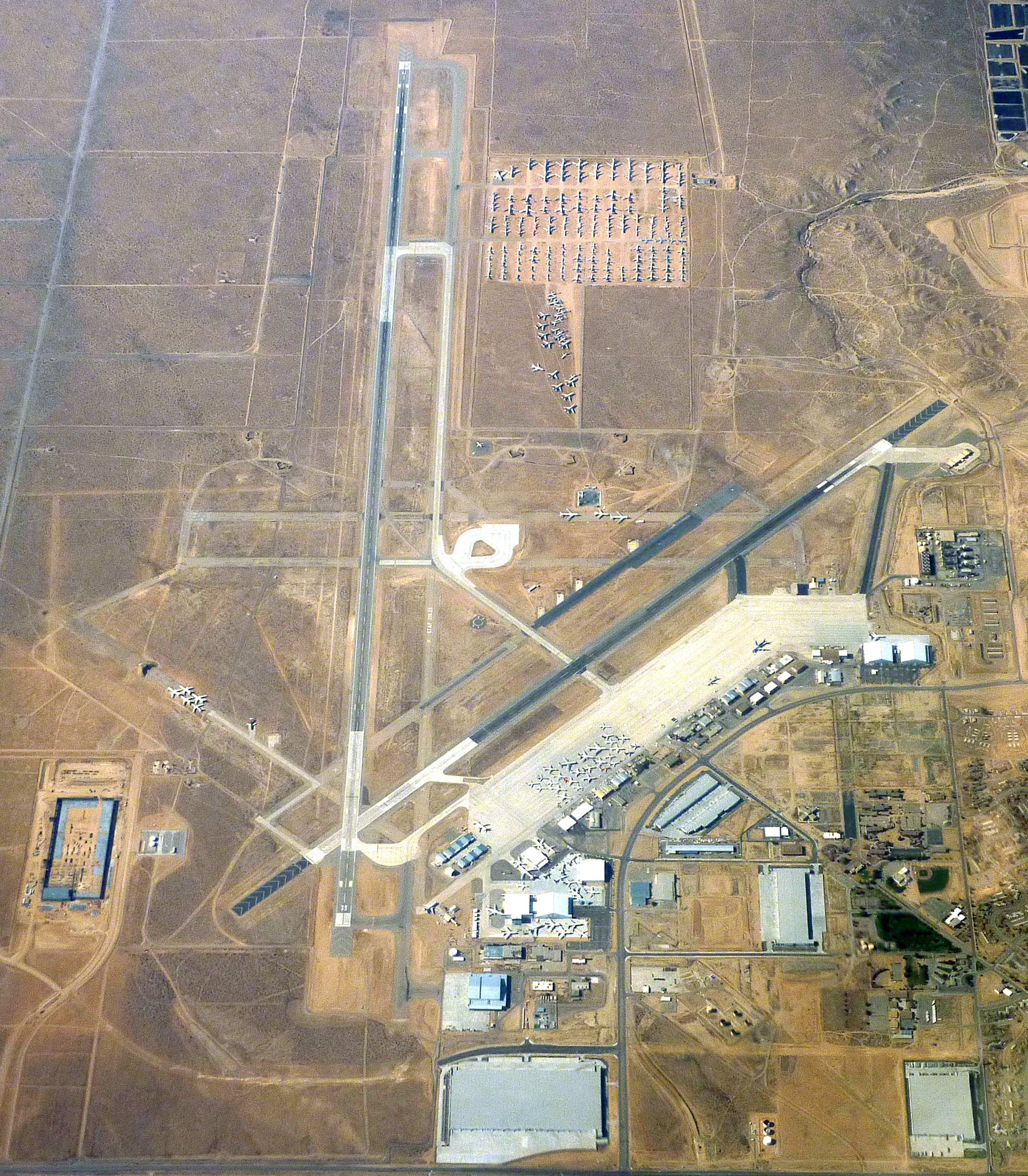 Aerial view of Southern California Logistics Airport, Victorville, California, USA.